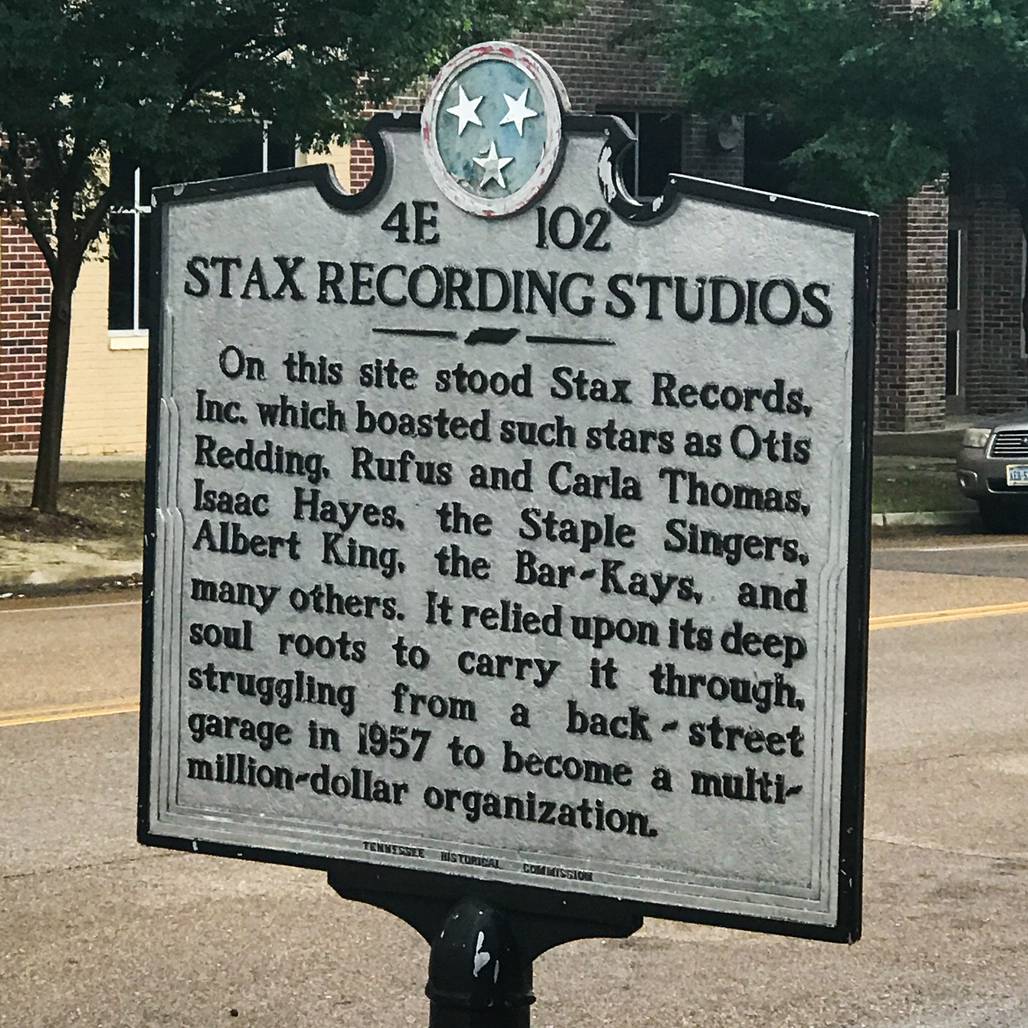 Tennessee Historical Commission marker at the original location of Stax Records, Memphis, Tennessee